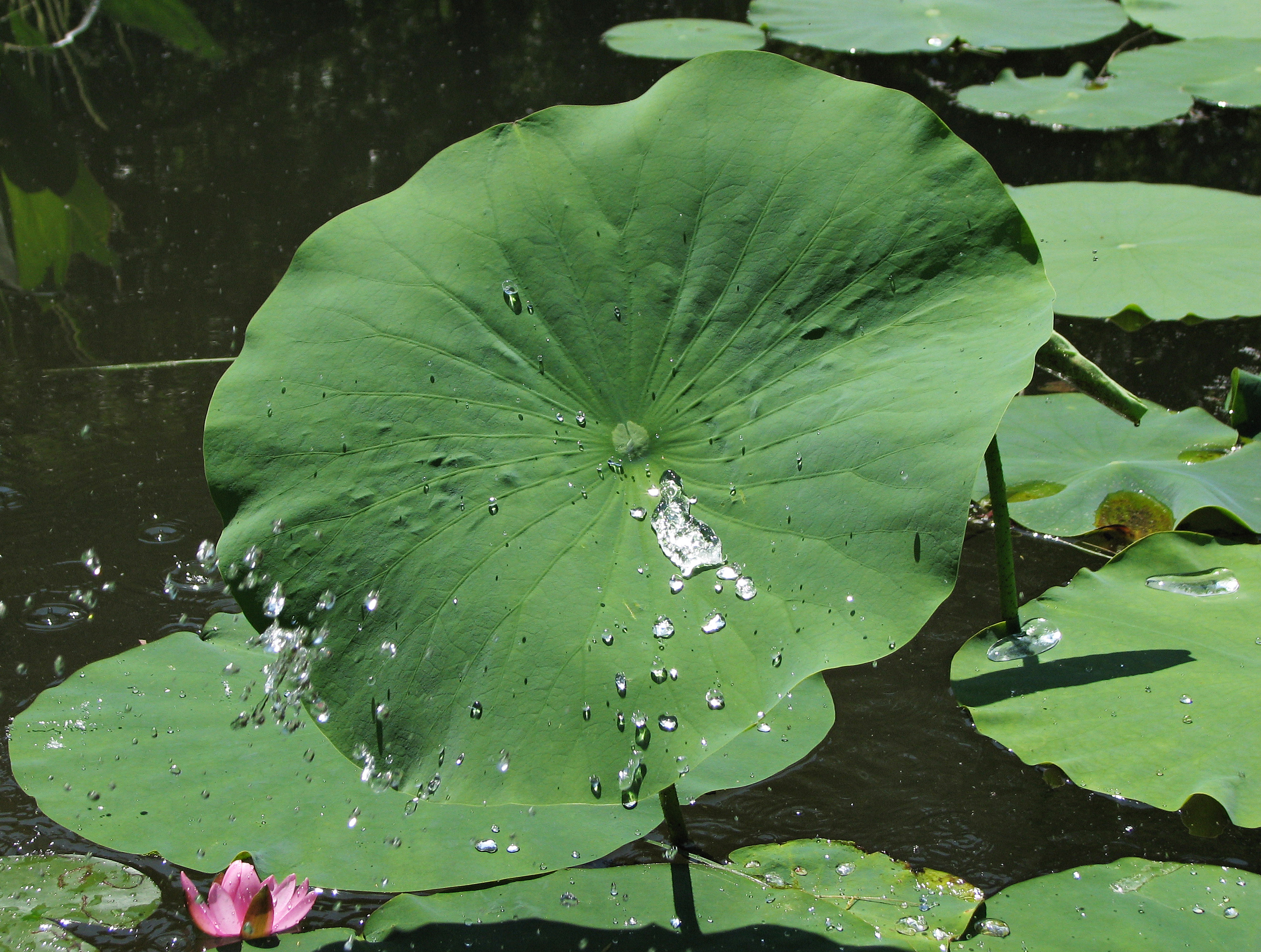 Picture of a water splash on a Lotusen (Nelumbo en 'Mrs. Perry D. Slocum') a cross between Nelumbo lutea and Nelumbo nucifera 'Rosea Plena'. Due to the waterproof properties of the leaf, the water beads and runs off of the leaf leaving it dry. Photo taken in the Pond at the Chanticleer Garden, where it was identified.